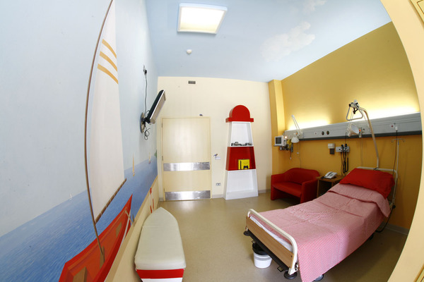 Toufoula Dream Room in Hospital showing sea, sand and sky room